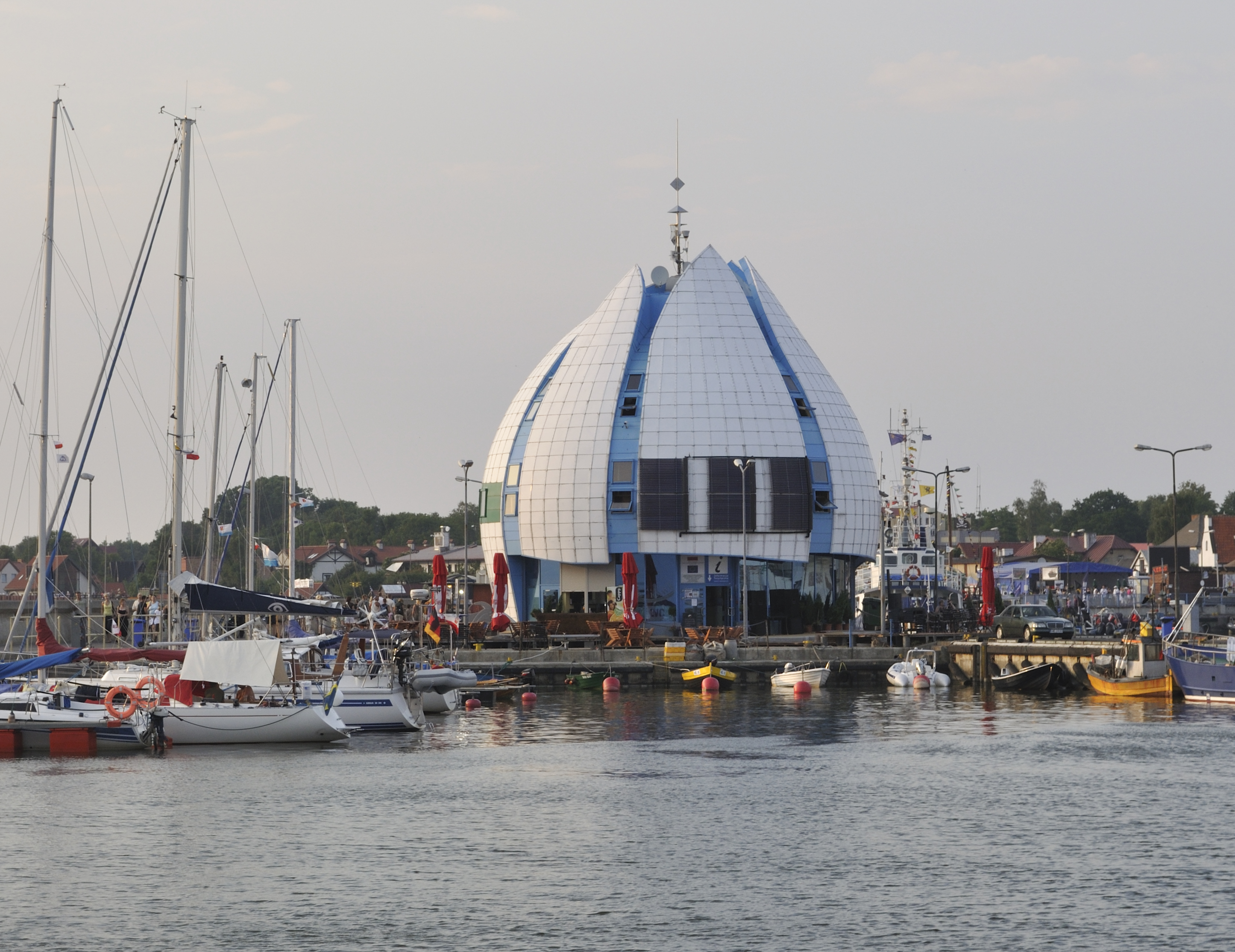 Picture taken in Hel after Wikimania 2010 conference. Port authority.